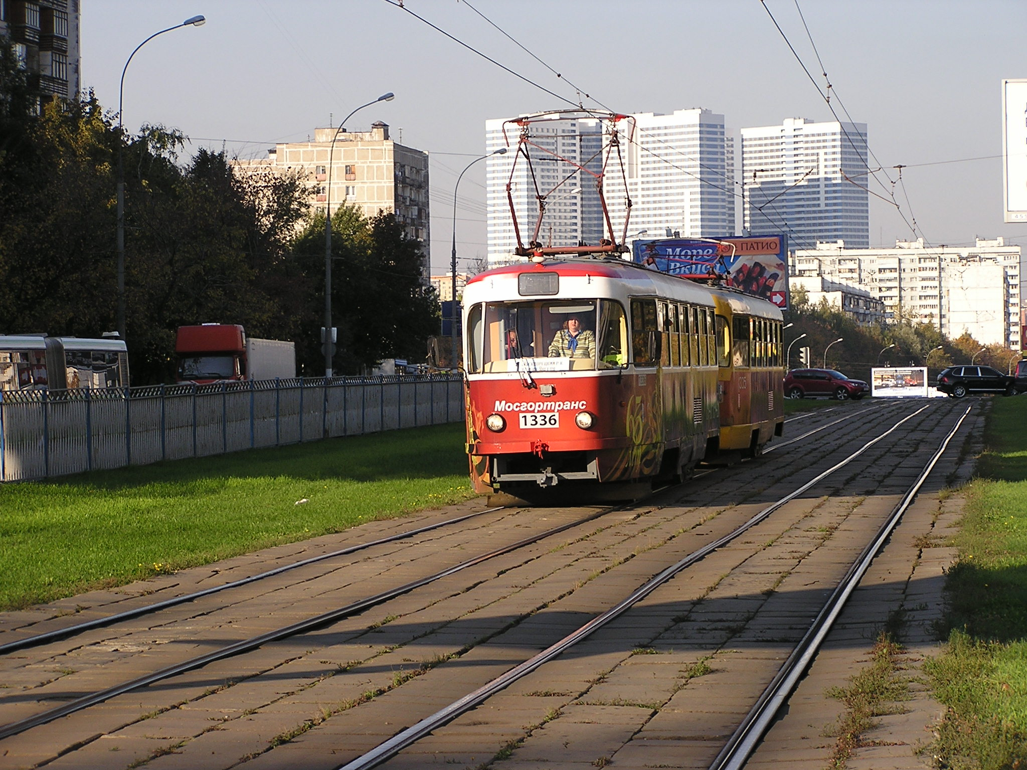 Chertanovskaya Street